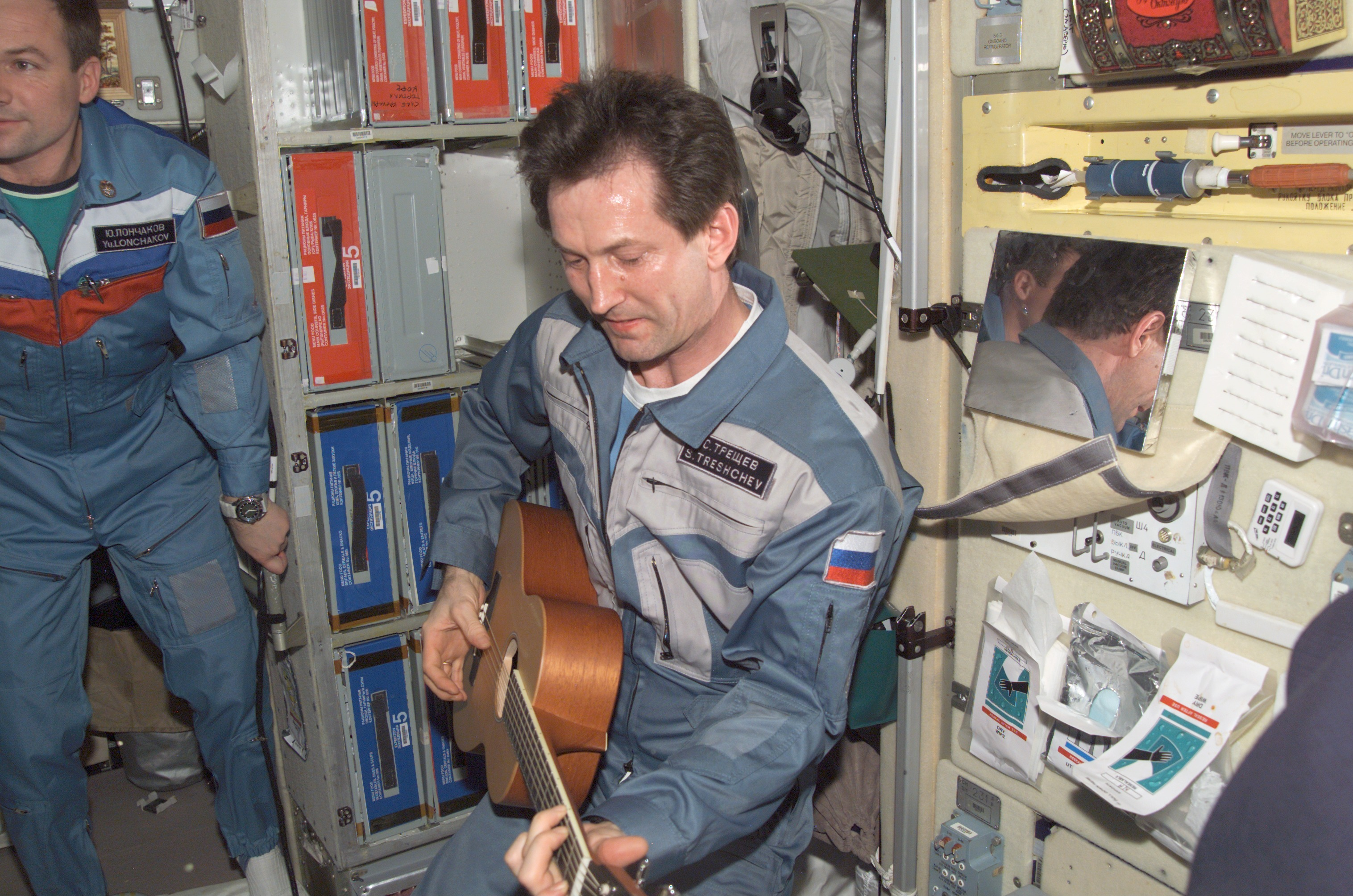 Cosmonaut Sergei Y. Treschev, Expedition Five flight engineer, plays host to some “visitors” to the International Space Station (ISS) as he performs on a guitar in the Zvezda Service Module on the International Space Station (ISS). Soyuz 5 Commander Sergei Zalyotin is partially out of frame to the left of Treschev. Zalyotin and Treschev represent Rosaviakosmos.